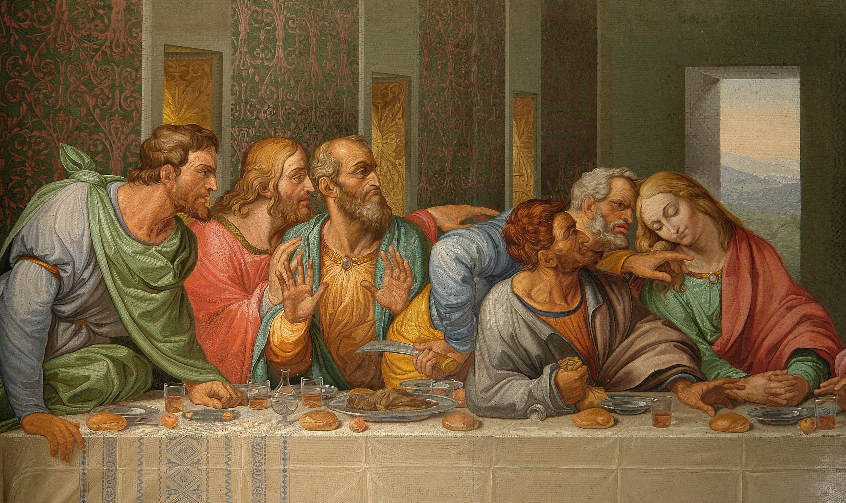 Detail of the copy of the Da Vinci's Last Supper by Giacomo Raffaelli Ordered by Napoleon to the Italian artist Giacomo Raffaelli, the mosaic was only terminated after Napoleon's abdication and end up in the Minoritenkirche (Vienna) Post-processing: Perspective correction